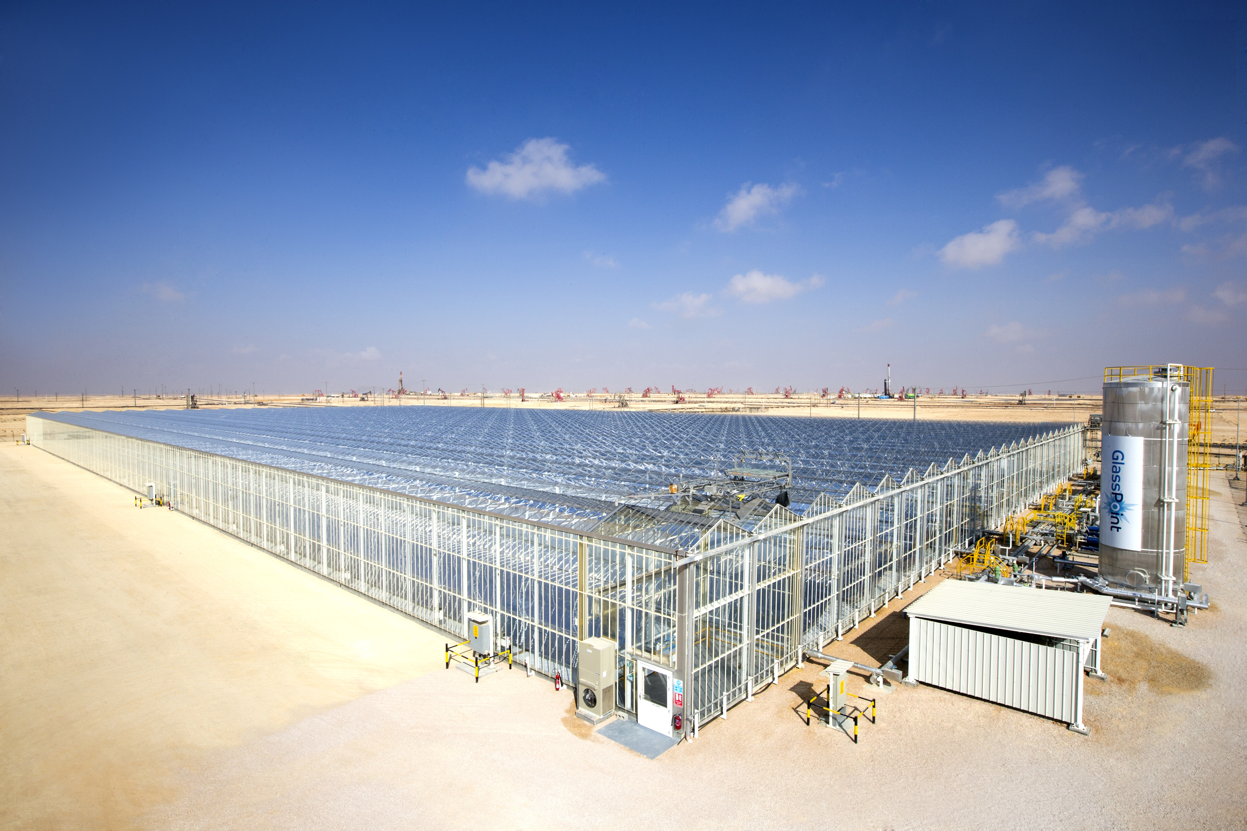 A 7MW enhanced oil recovery site in Amal, Oman developed by GlassPoint Solar.